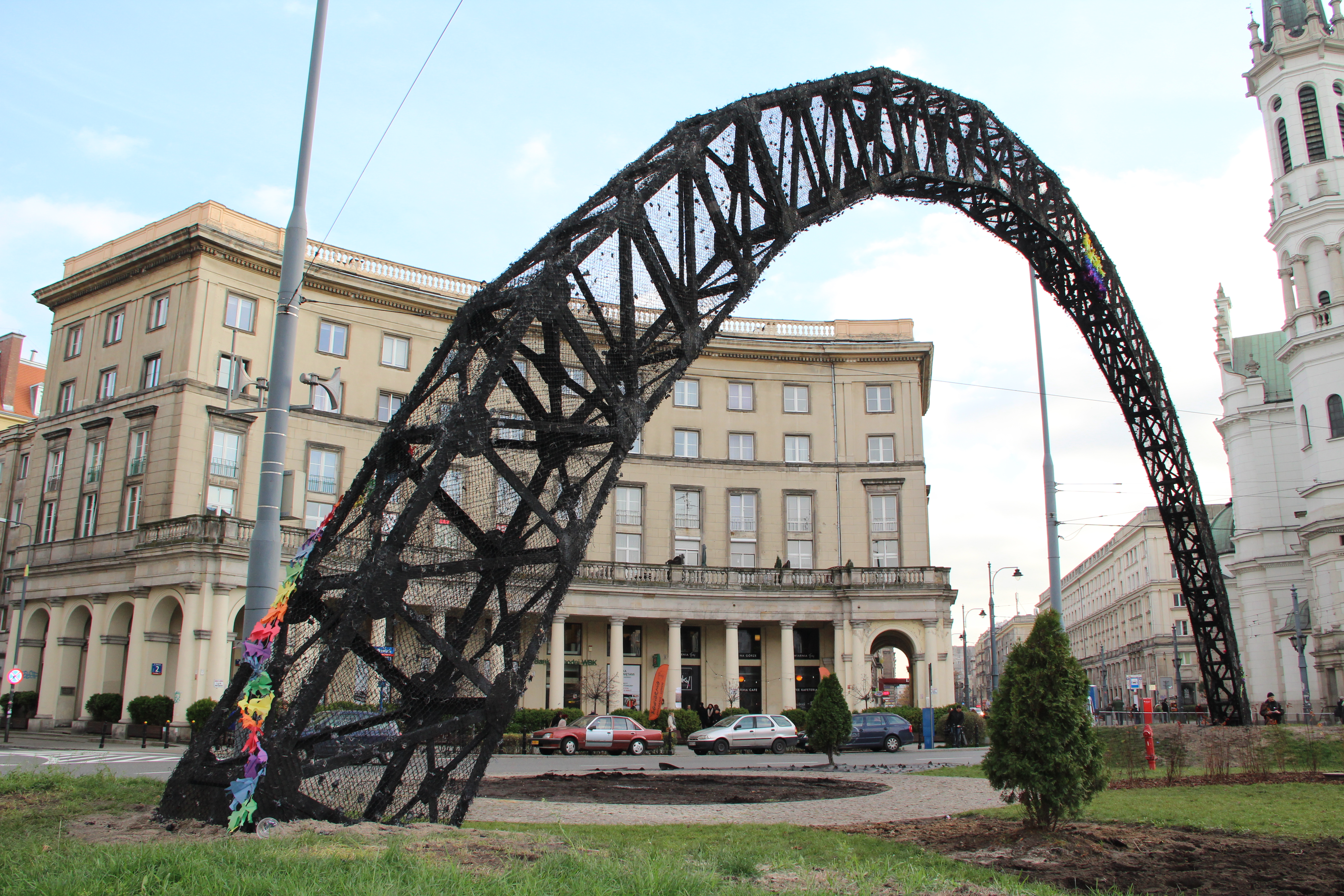 Burned down in riots (independence march at the day before) rainbow at Plac Zbawiciela, Warsaw